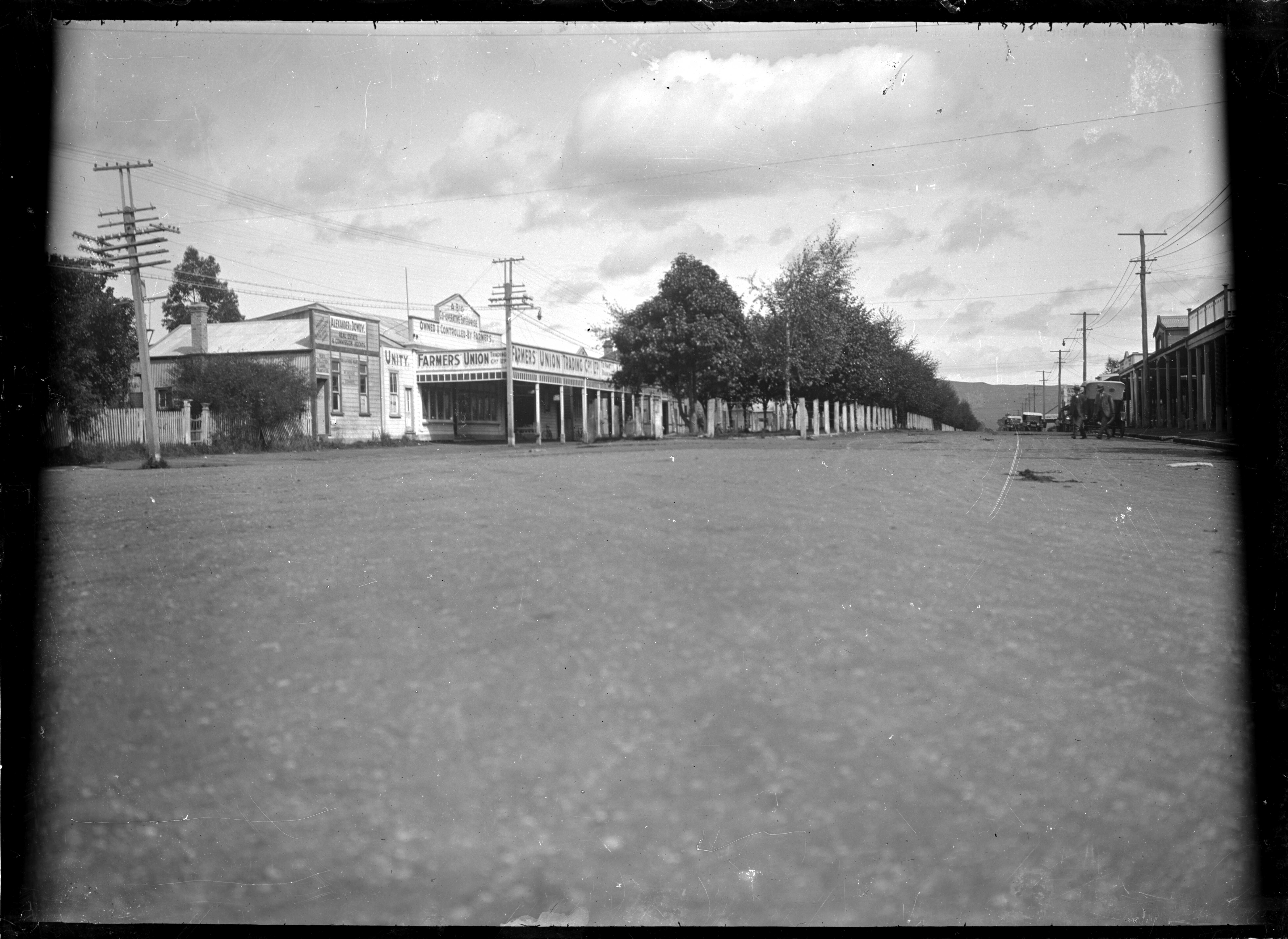 View of the Main Street in Te Puke in 1924. The premises of Alexander & Dowdy, real estate agents, and the Farmers' Union Trading Company are visible centre left. Photographed by Albert Percy Godber. Dated from other images in Godber Album Vol 109.